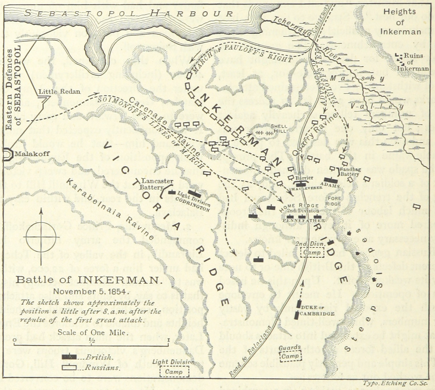 A British map of the 1854 Battle of Inkerman, part of the Crimean War.